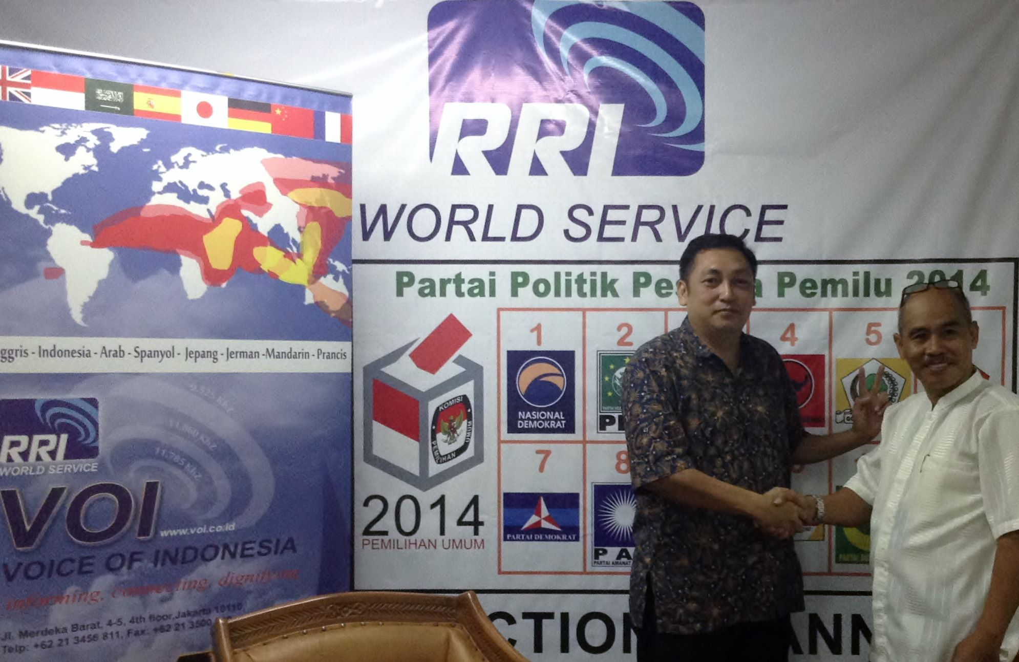 Kampanye Jokowi-JK di RRI, Juni 2014